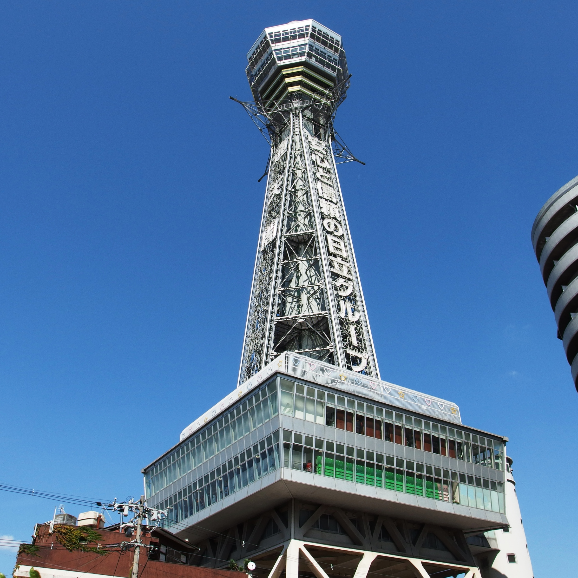 Tsūtenkaku, Osaka, Osaka Prefecture, Japan